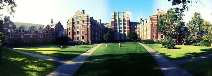 Tower Court is the largest dorm complex of Wellesley College